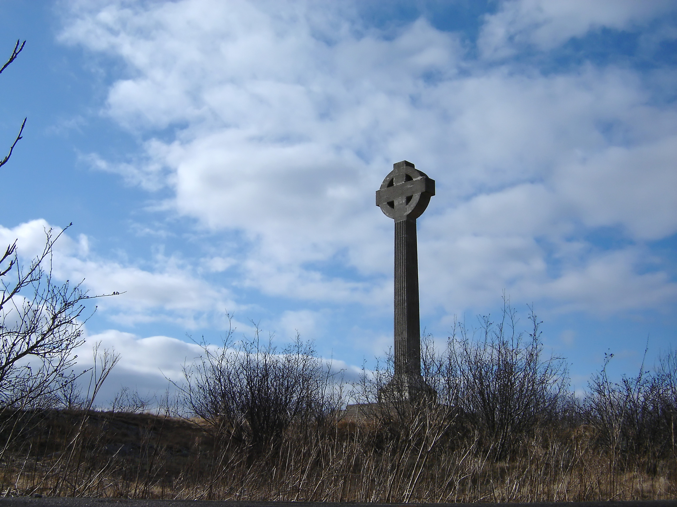 The Celtic memorial cross on Partridge Island, New Brunswick, Canada. The cross was erected in 1927 to commemorate the thousands of Irish immigrants who were quarantined on Partridge Island during the 1840s as a result of a Typhus epidemic.